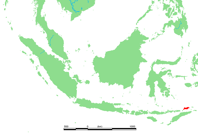 ID Alor.PNG